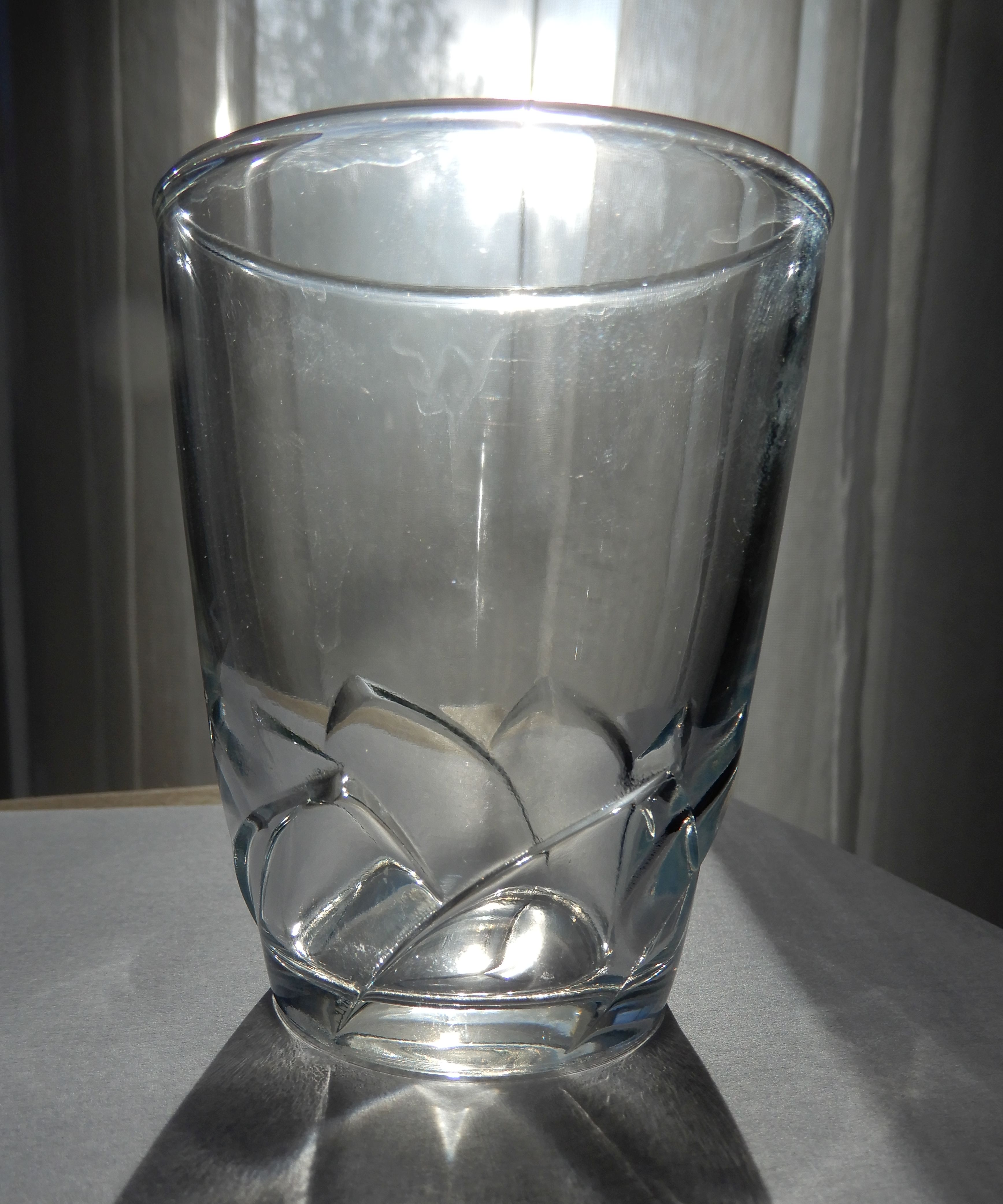 Drinking glass Amora, originally for mustard, pressed glass, France since 1985,ː content 0,1 liter